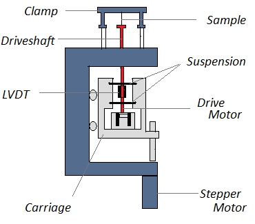 DMA schematic